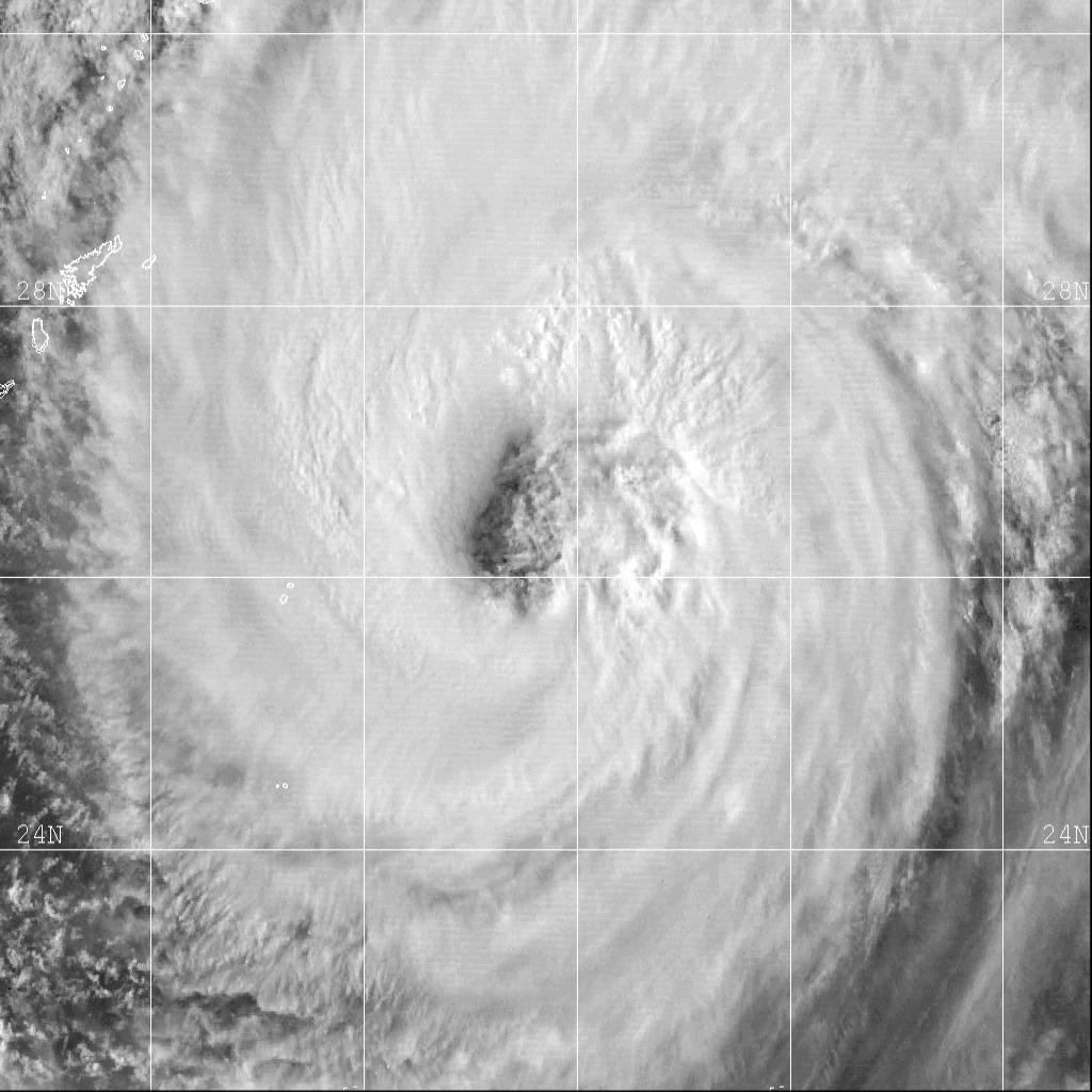 Typhoon Pabuk on August 19, 2001.